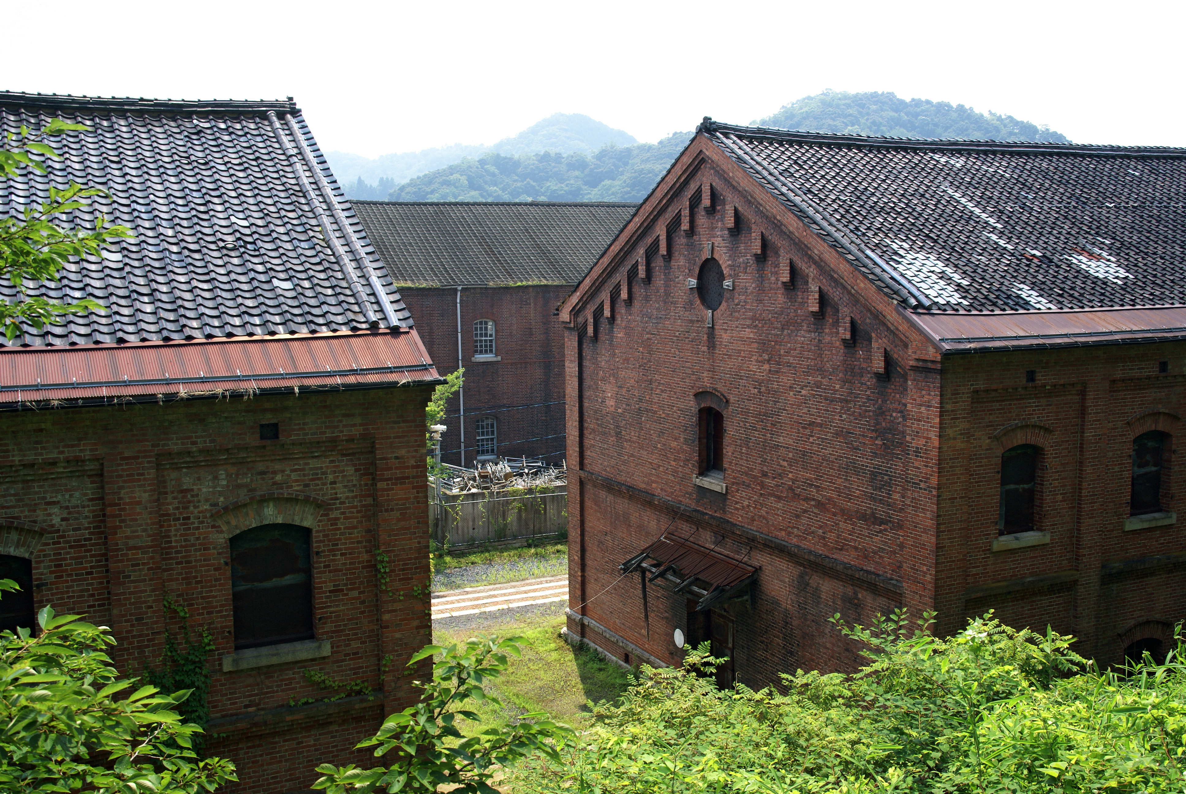 Maizuru Red Brick Warehouses in Maizuru, Kyoto prefecture, Japan